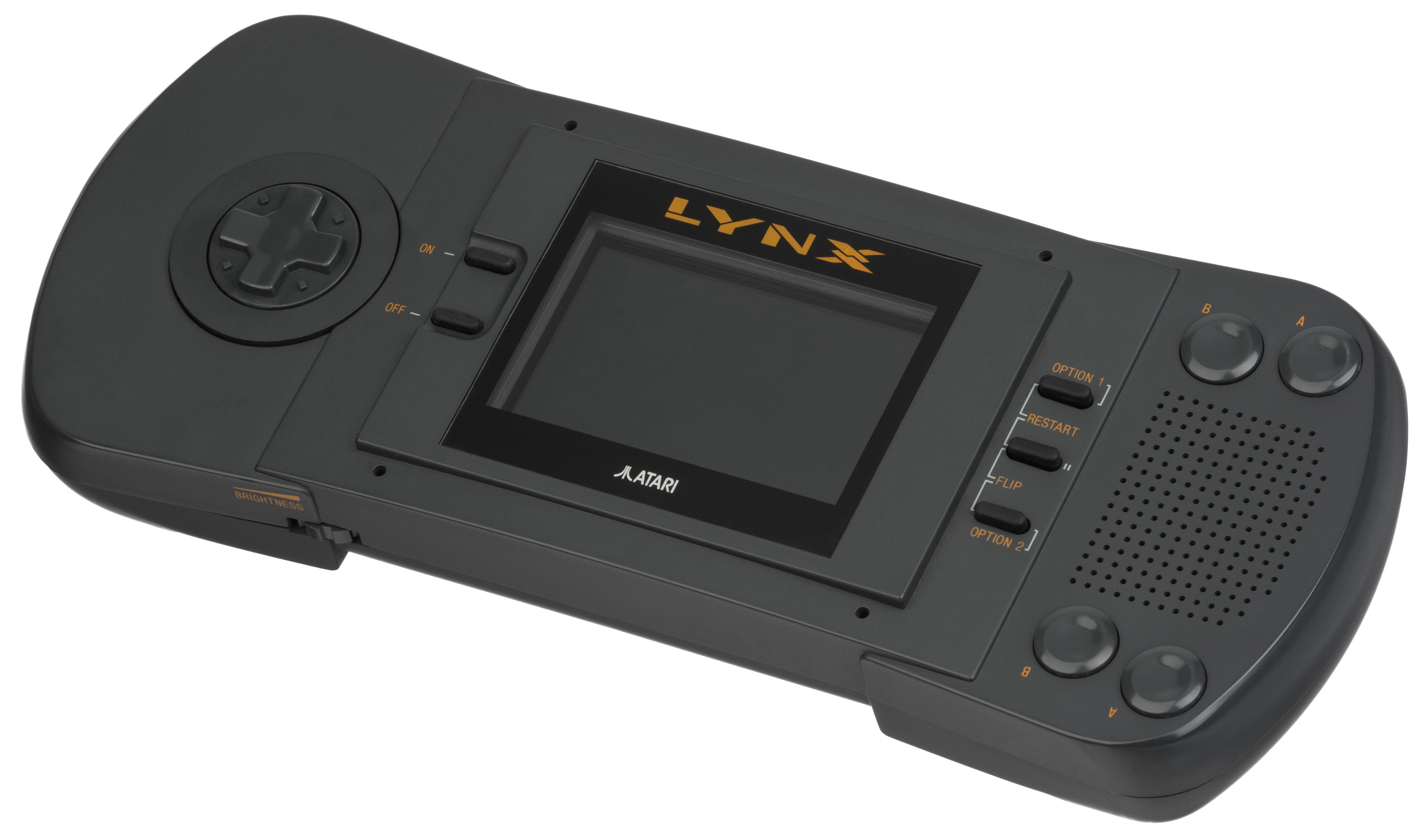 The Atari Lynx, a handheld video game console first released in 1989.